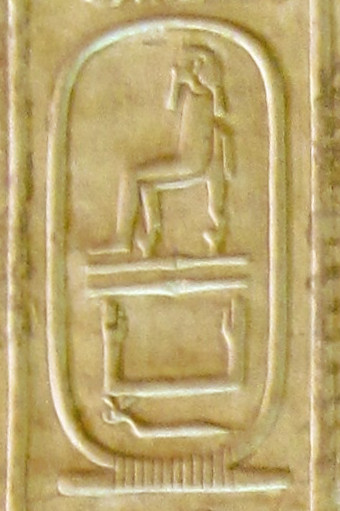 Cartouche 25, Abydos King List. Temple of Seti I, Abydos, Egypt